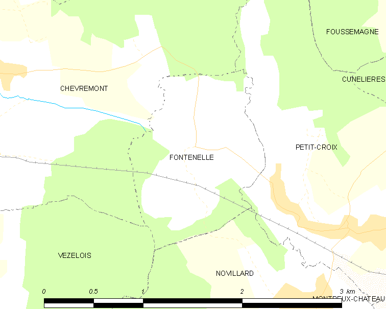 Map of French municipality Fontenelle